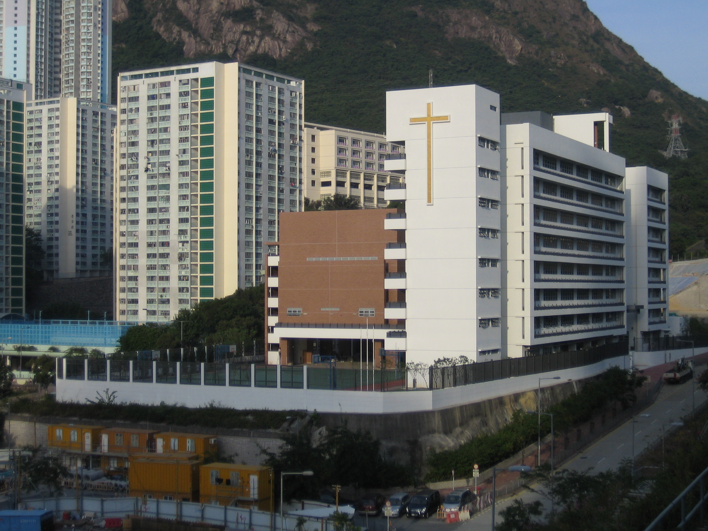 This image is the west view of SJACS new campus which is taken from path near Choi Wan Road Fresh Water Service Reservoir, Hong Kong. If you have any questions about the licensing (like cc-by-sa, GFDL), or you want to republish the image without using the licensing shown as below, you are welcome to leave a message on the User Talk Page of my Chinese Wikipedia account. 中文（香港）: 這照片是從西面拍下聖若瑟英文中學新校舍，拍攝地點是香港九龍近彩雲道食水配水庫的小徑。 如你對這照片版權許可協議 (例cc-by-sa, GFDL) 有疑問，或你想把照片不用以下的版權協議轉載，歡迎你到我在中文維基百科的用戶對話頁留言。